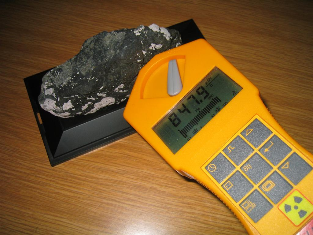 Measuring aequivalent dose on pitchblende (a.k.a. uraninite; uranium ore)